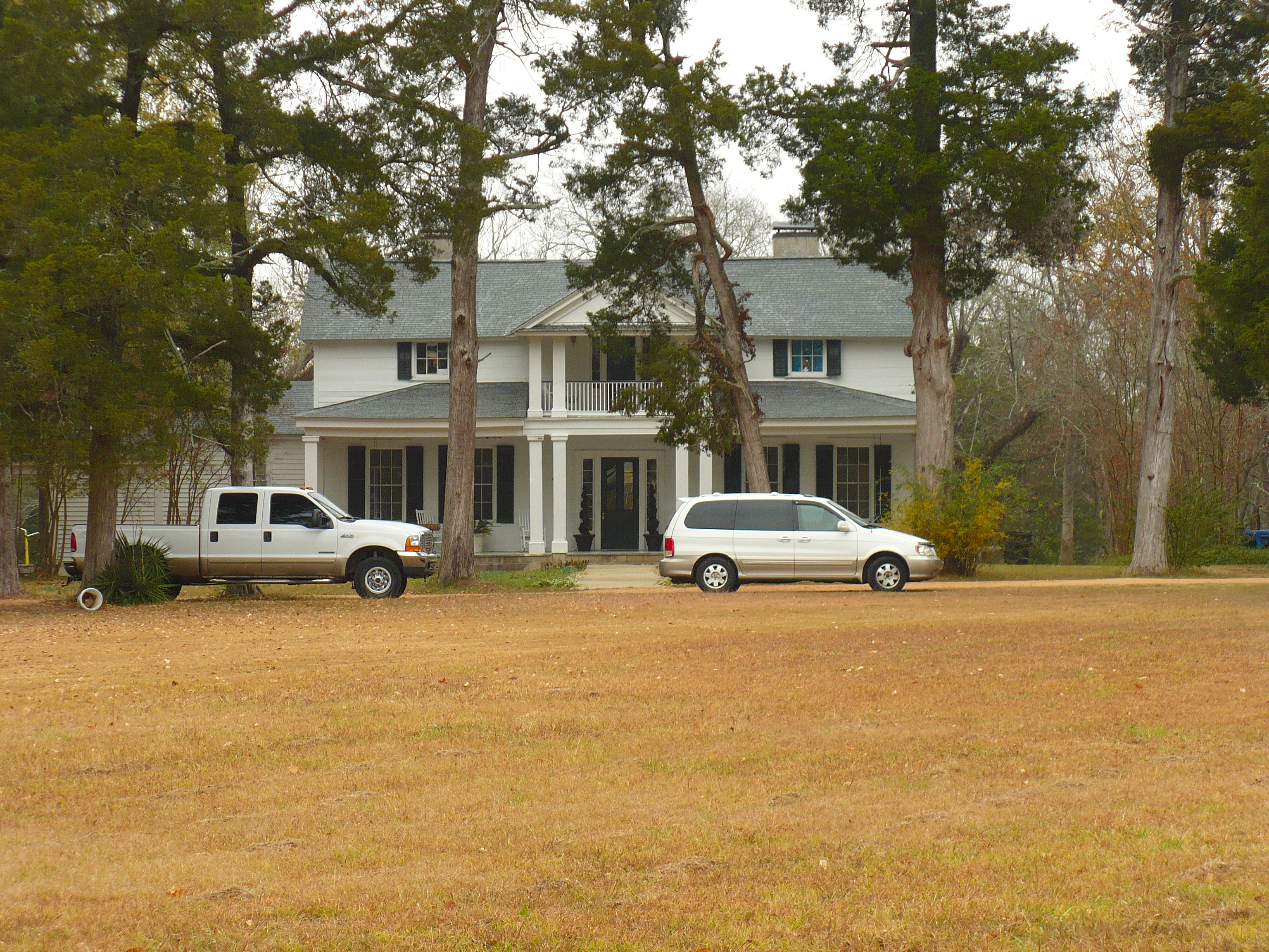 Battersea Plantation in Prairieville, Hale County, Alabama.